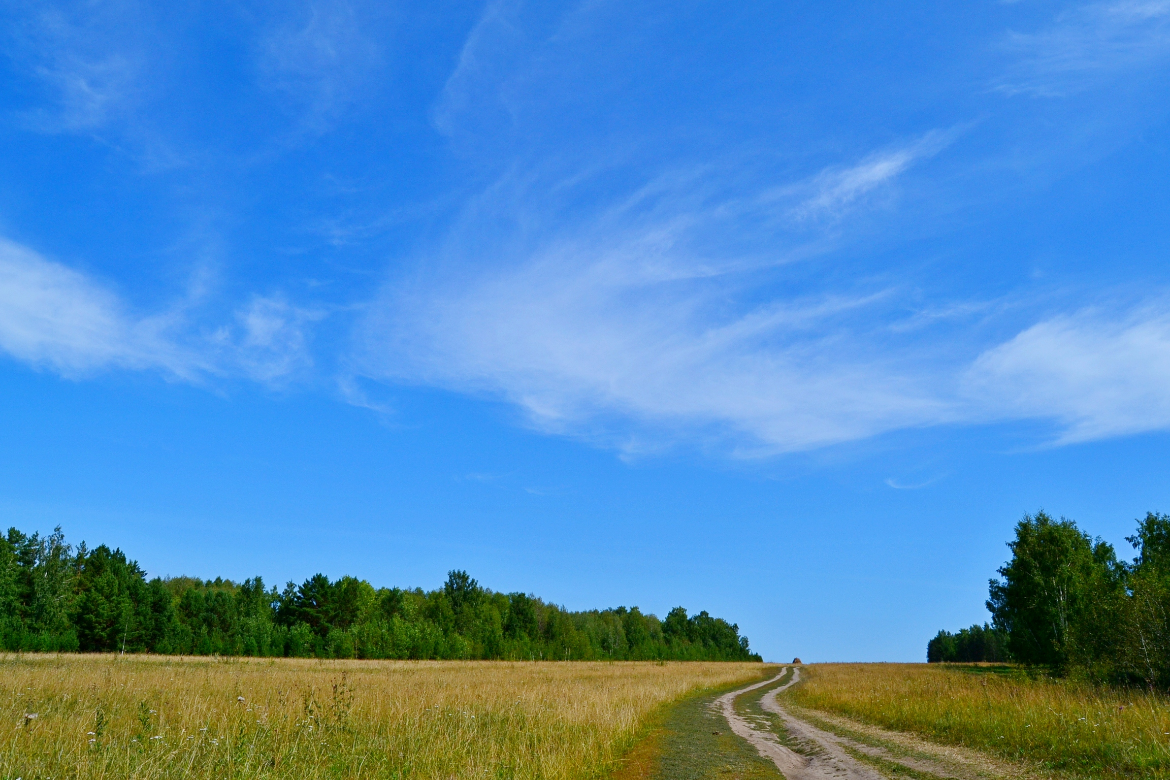 Cirrus intortus radiatus clouds